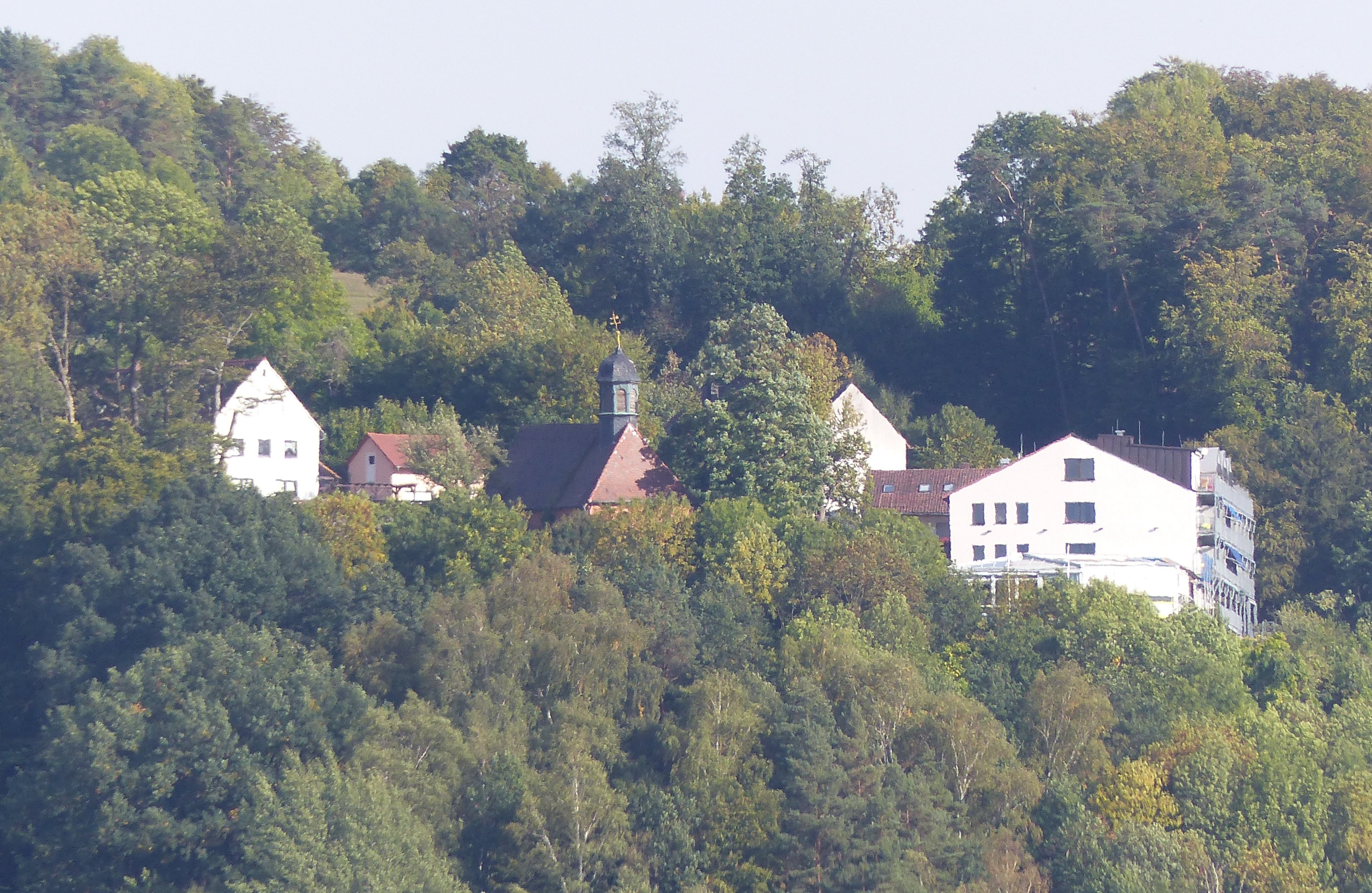 The church village Regensberg, part of the municipality of Kunreuth